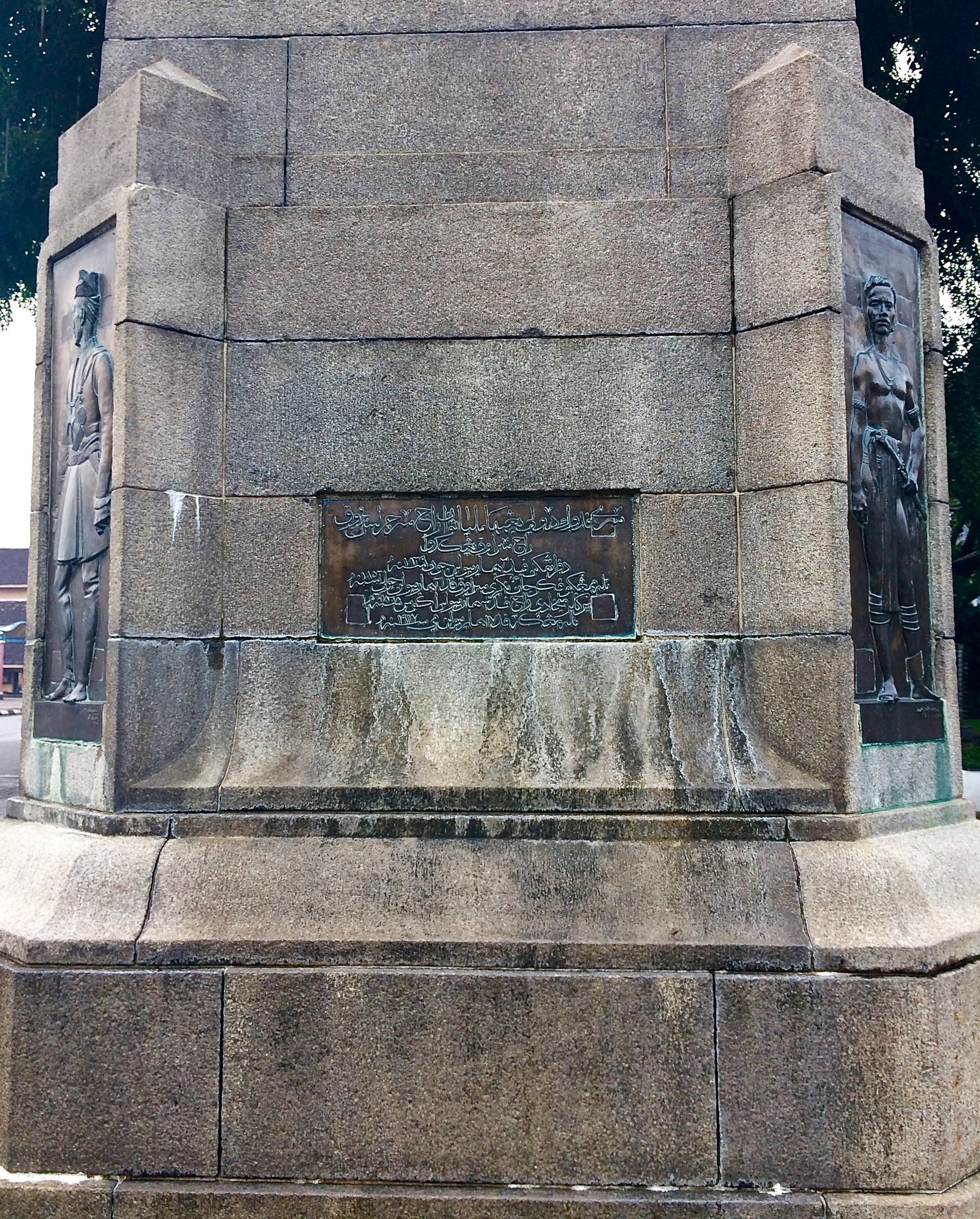 Side view of the Charles Brooke Memorial showing the Jawi translation of the English inscription in front.